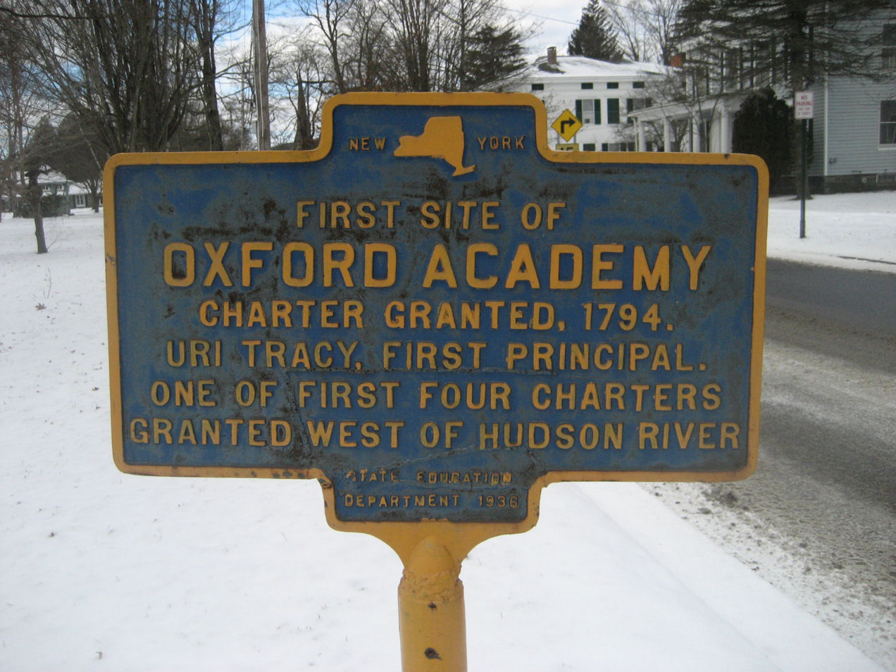 Historic marker of the first site of the Oxford Academy, Oxford, NY. Chartered 1794, with Uri Tracy first principal. One of the first four charters west of the Hudson River.